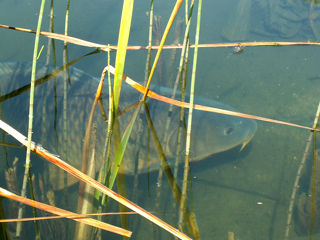 Scaled Carp, head of a foraging carp. (Cyprinus carpio)